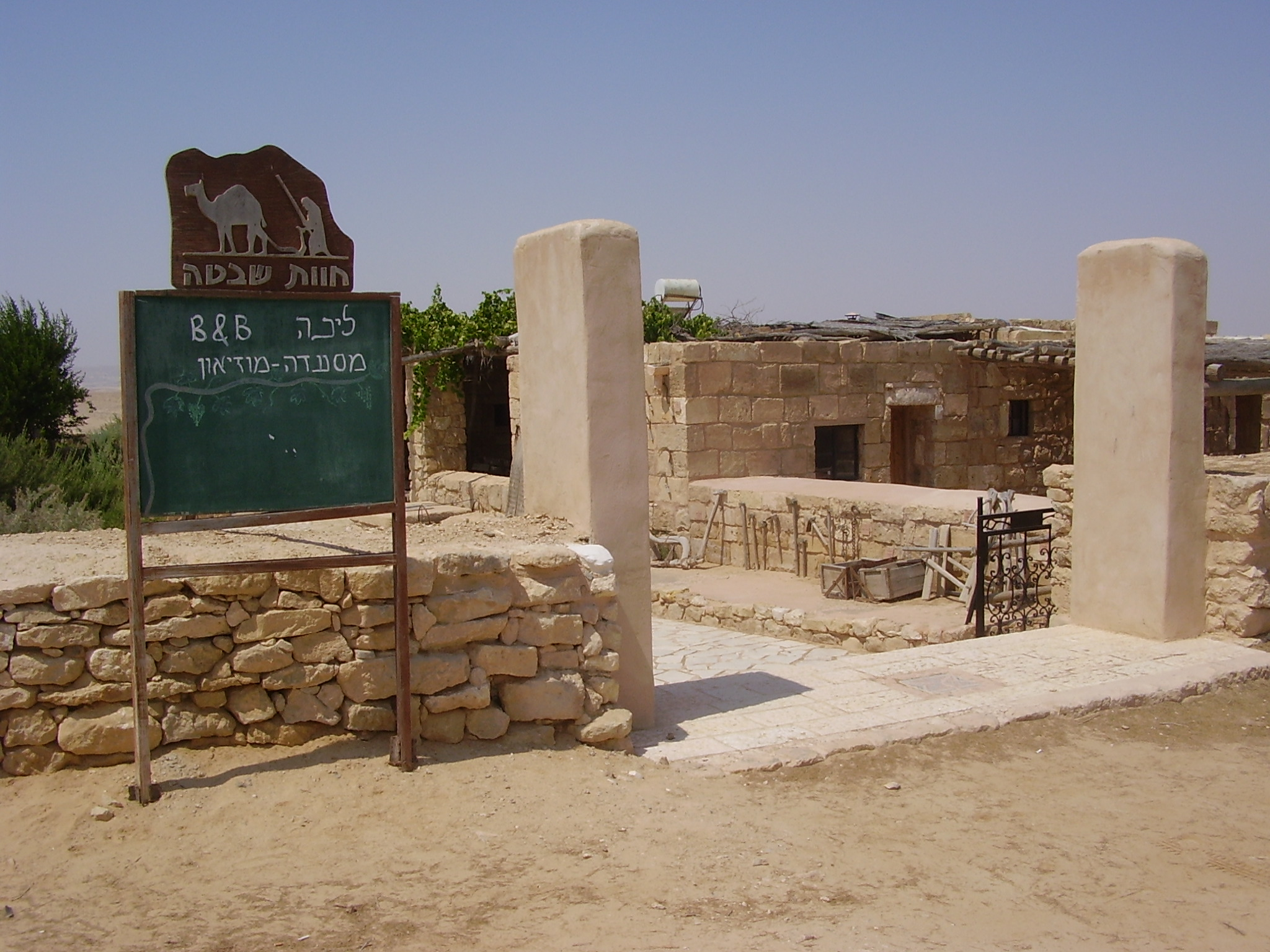 Colt\'s house in Shivta